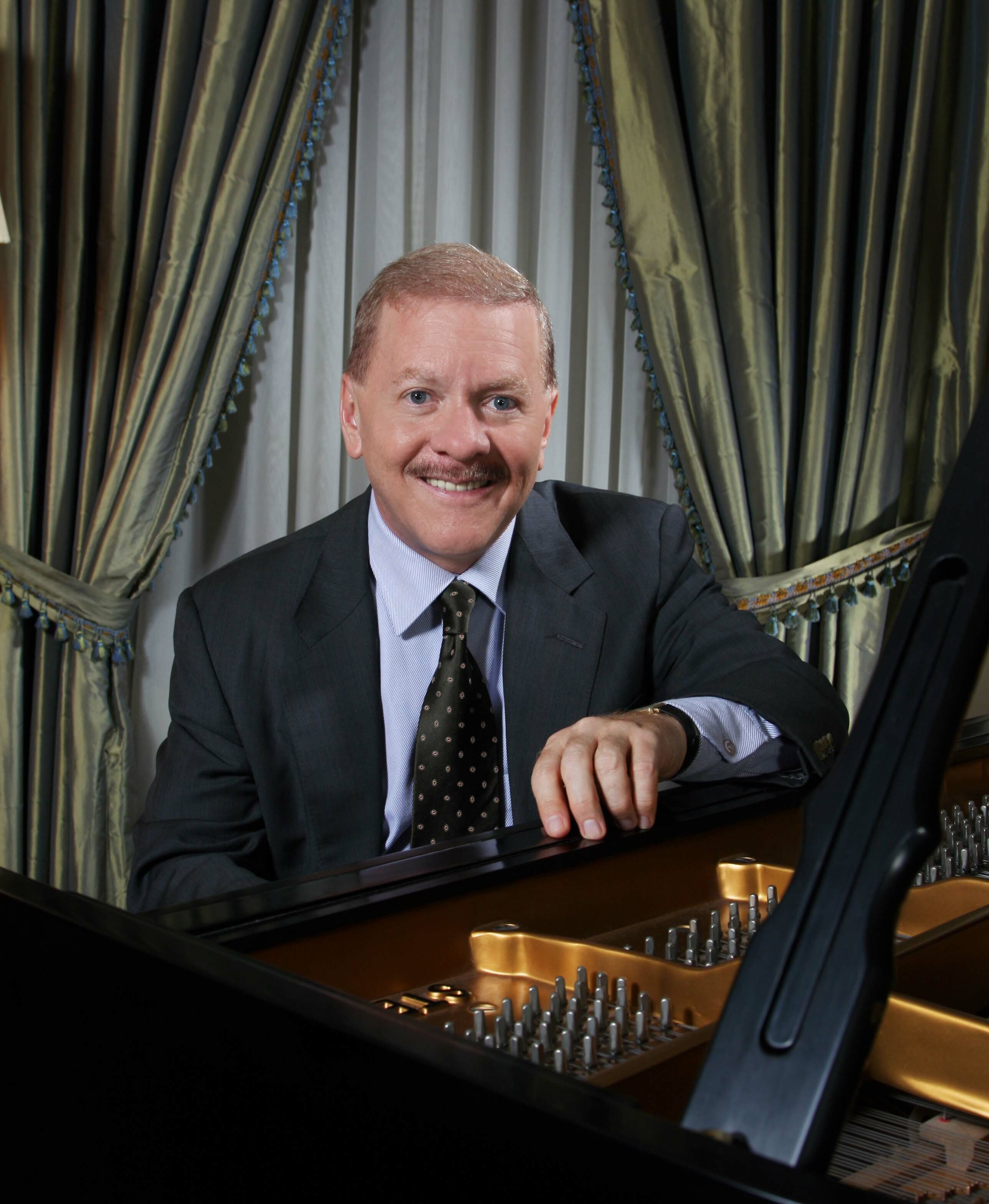 Harrison Gradwell Slater, in his studio, Boston, June 2009